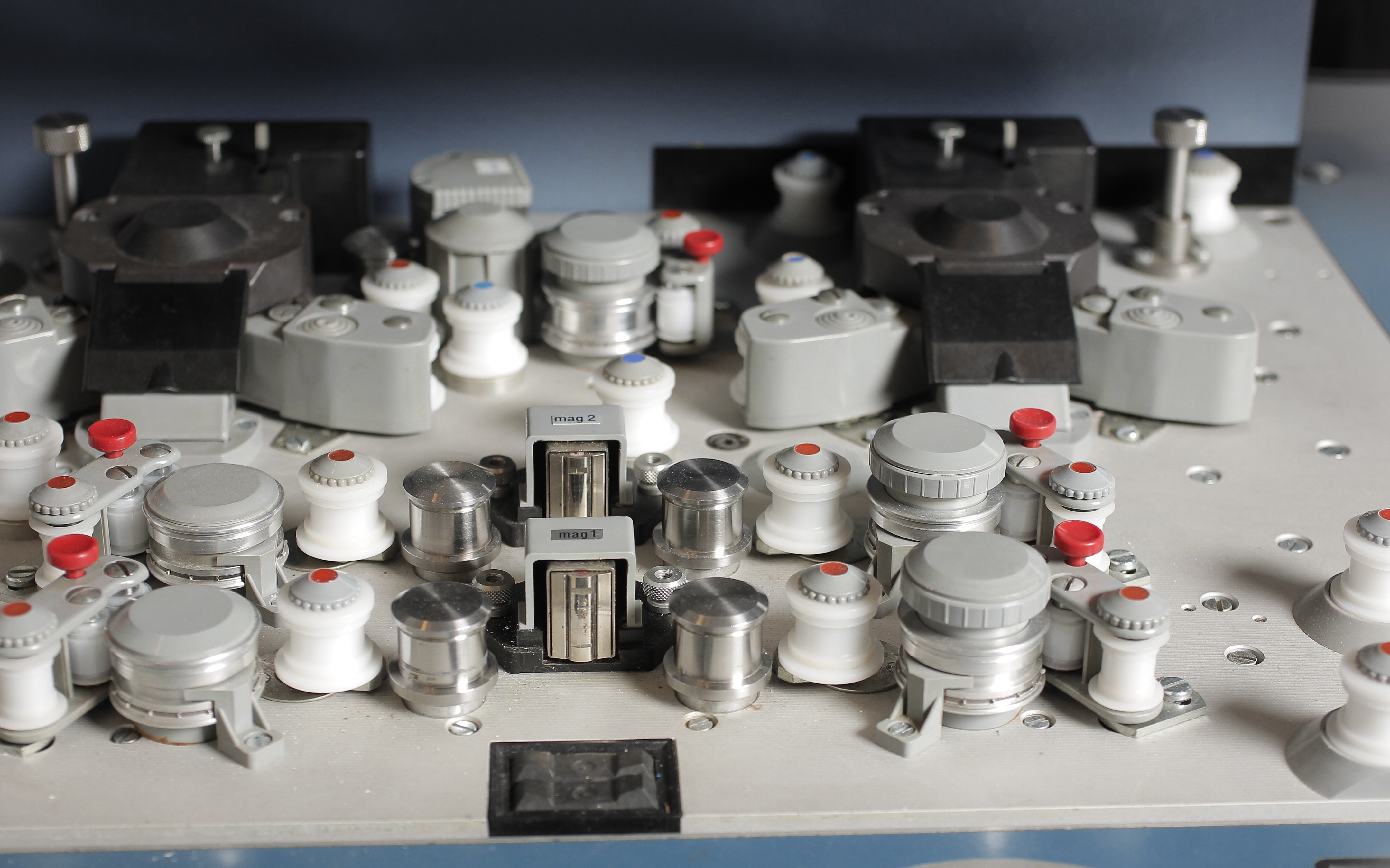 Danmarks Radios arkiv af DRs Kulturarvsprojekt / The archive of the Danish Broadcasting Corporation Photos must be credited "DRs Kulturarvsprojekt"